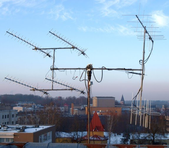 University of Tartu's ground station that will be used for ESTCube-1 mission